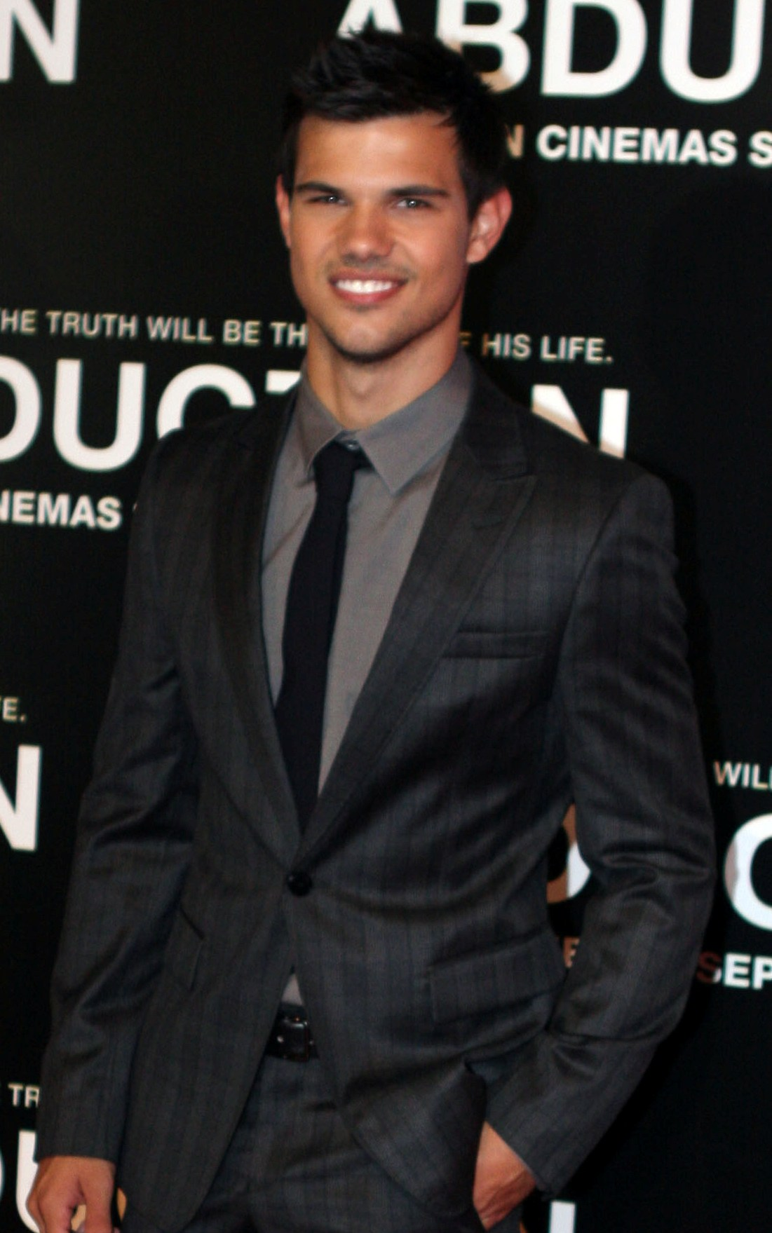 Taylor Lautner at the premiere for Abduction in August 2011